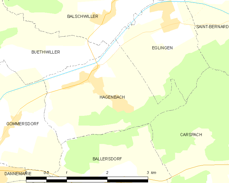 Map of French municipality